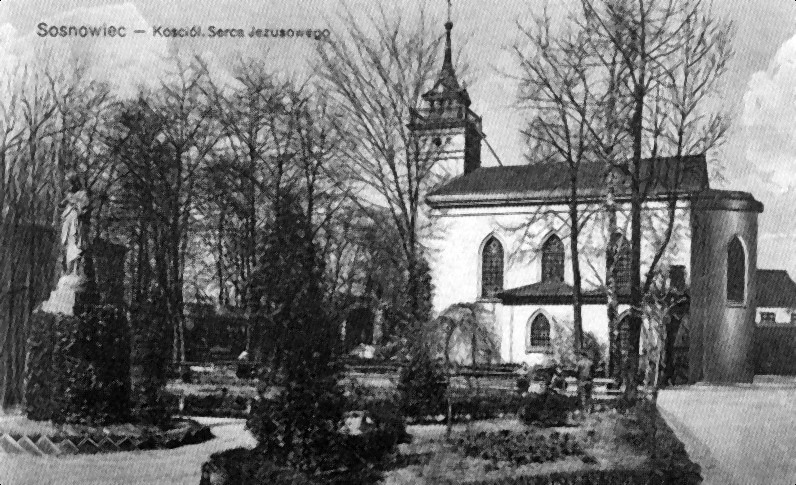 Church,Sosnowiec